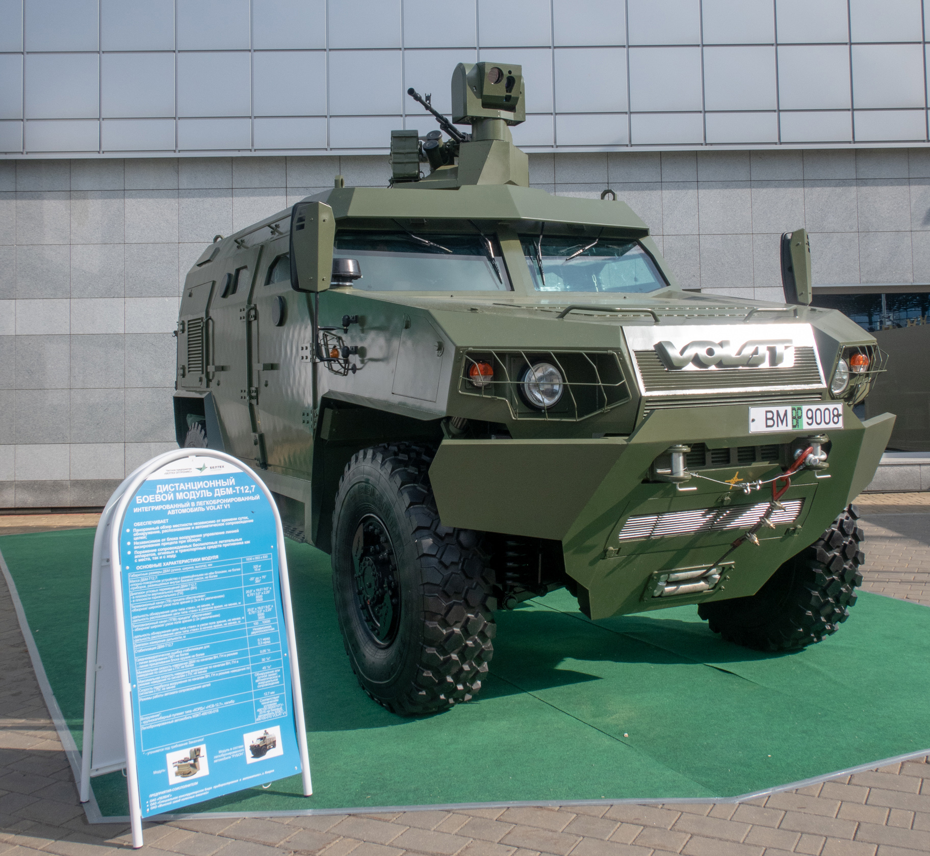 Belarusian-produced Volat V1 with remote weapon system (12.7mm machine gun)